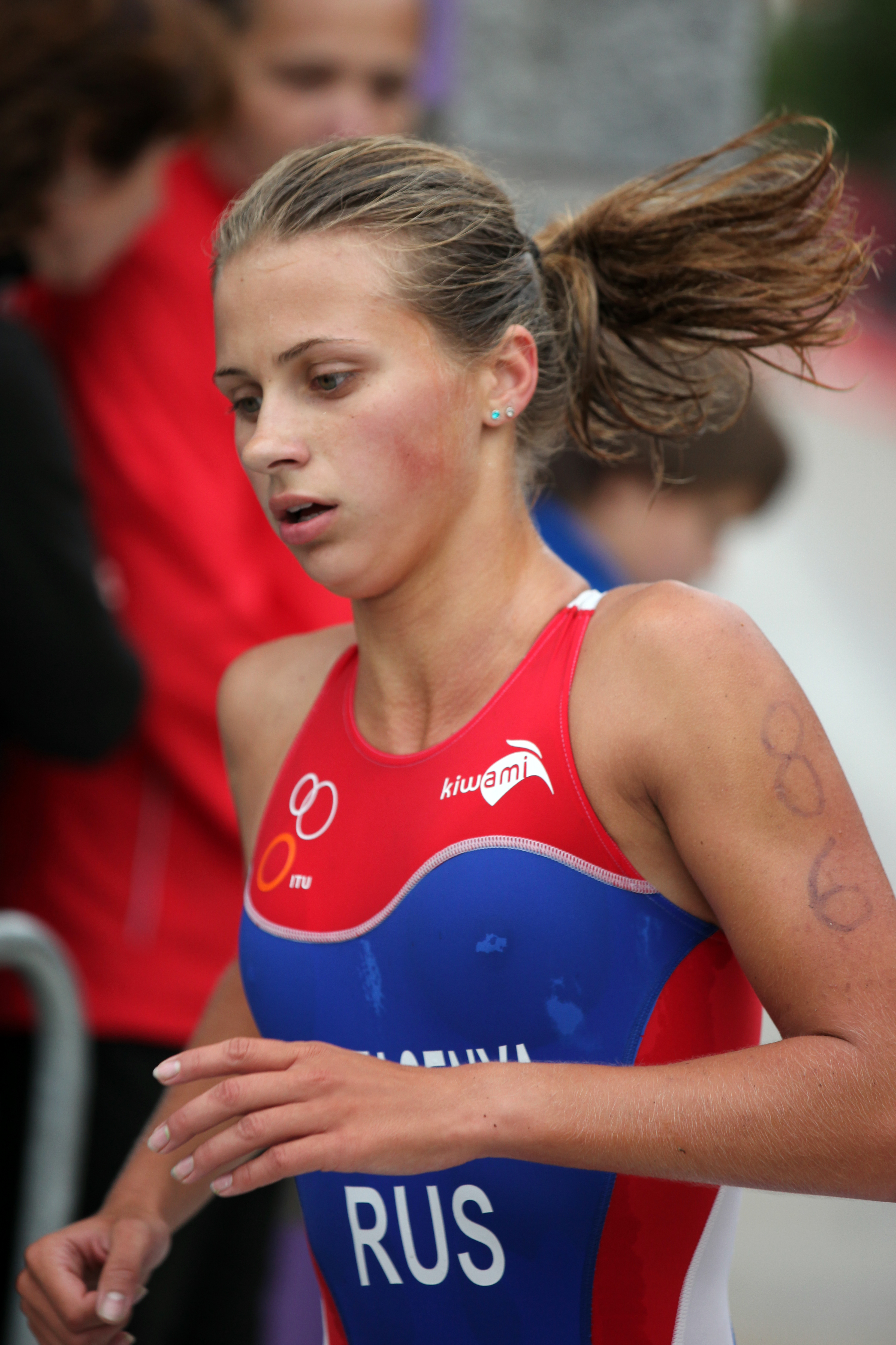 Anastasiya Protasenya (Анастасия Александровна Протасеня) at the Junior European Cup in Tabor.